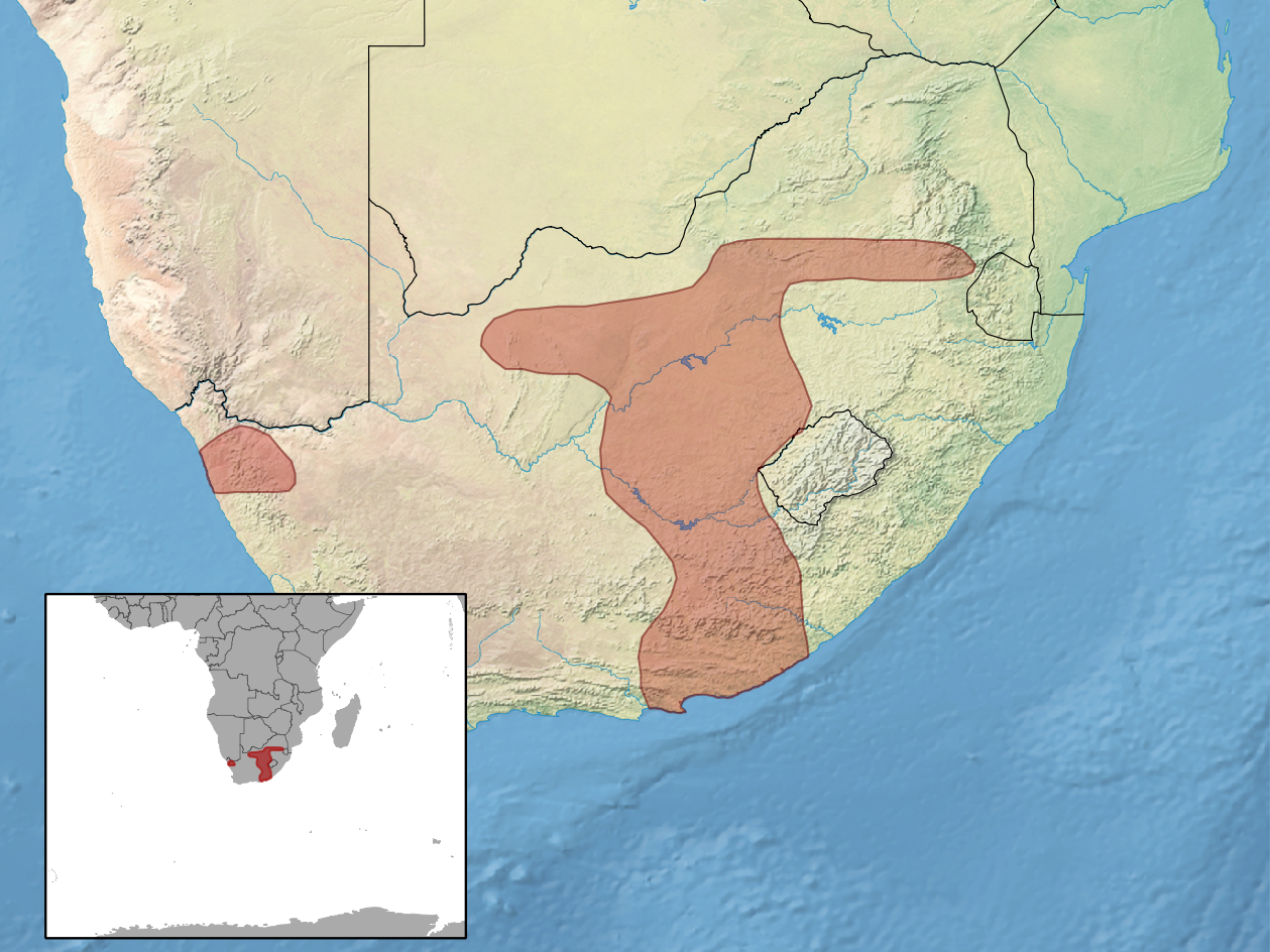 geographic distribution of Acontias gracilicauda